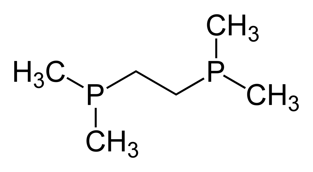 Skeletal formula of 1,2-bis(dimethylphosphino)ethane, dmpe, Me2PCH2CH2PMe2. Structure drawn in ChemDraw Ultra 11.0.